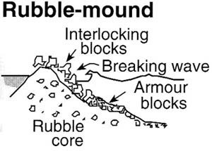 University of Barcelona, Spain